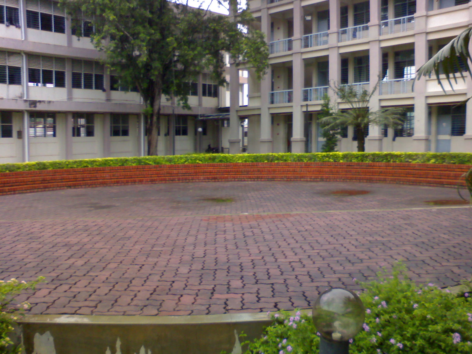 This is the amphitheatre of Chung Ling (National Type) High School.